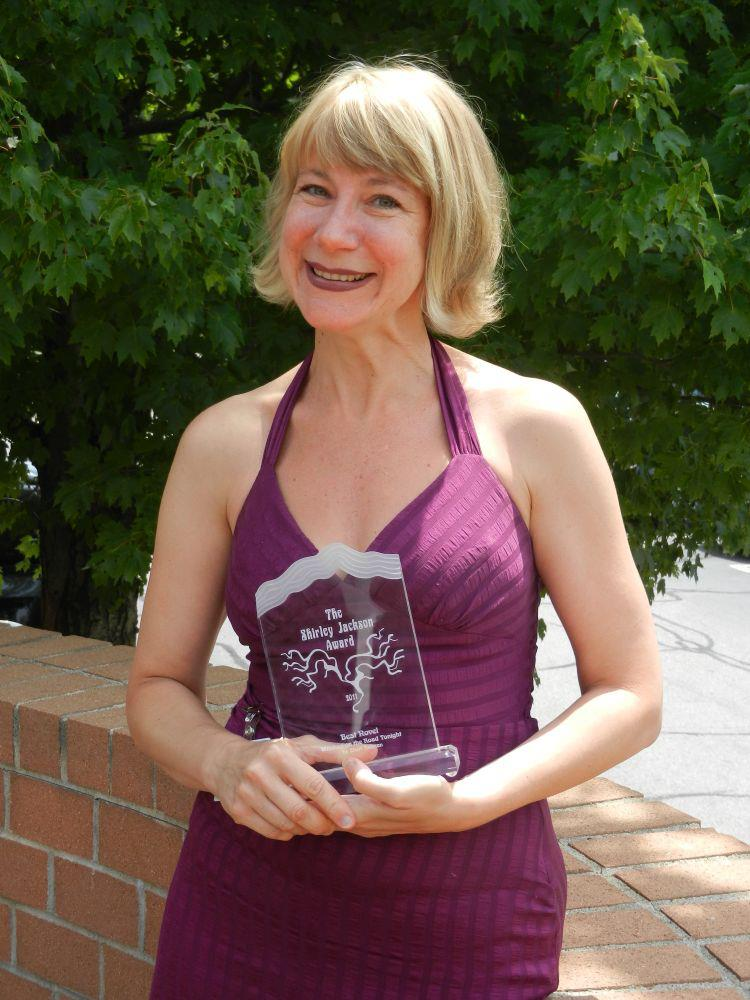 Novelist Sheri Holman at Shirley Jackson Awards, April 2012